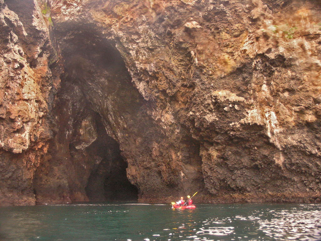 Photo by Dave Bunnell of Painted Cave, Santa Cruz Island, California. This is one of the world's longest known sea caves.Note the fault line along which the cave was formed, upper left of entrance.